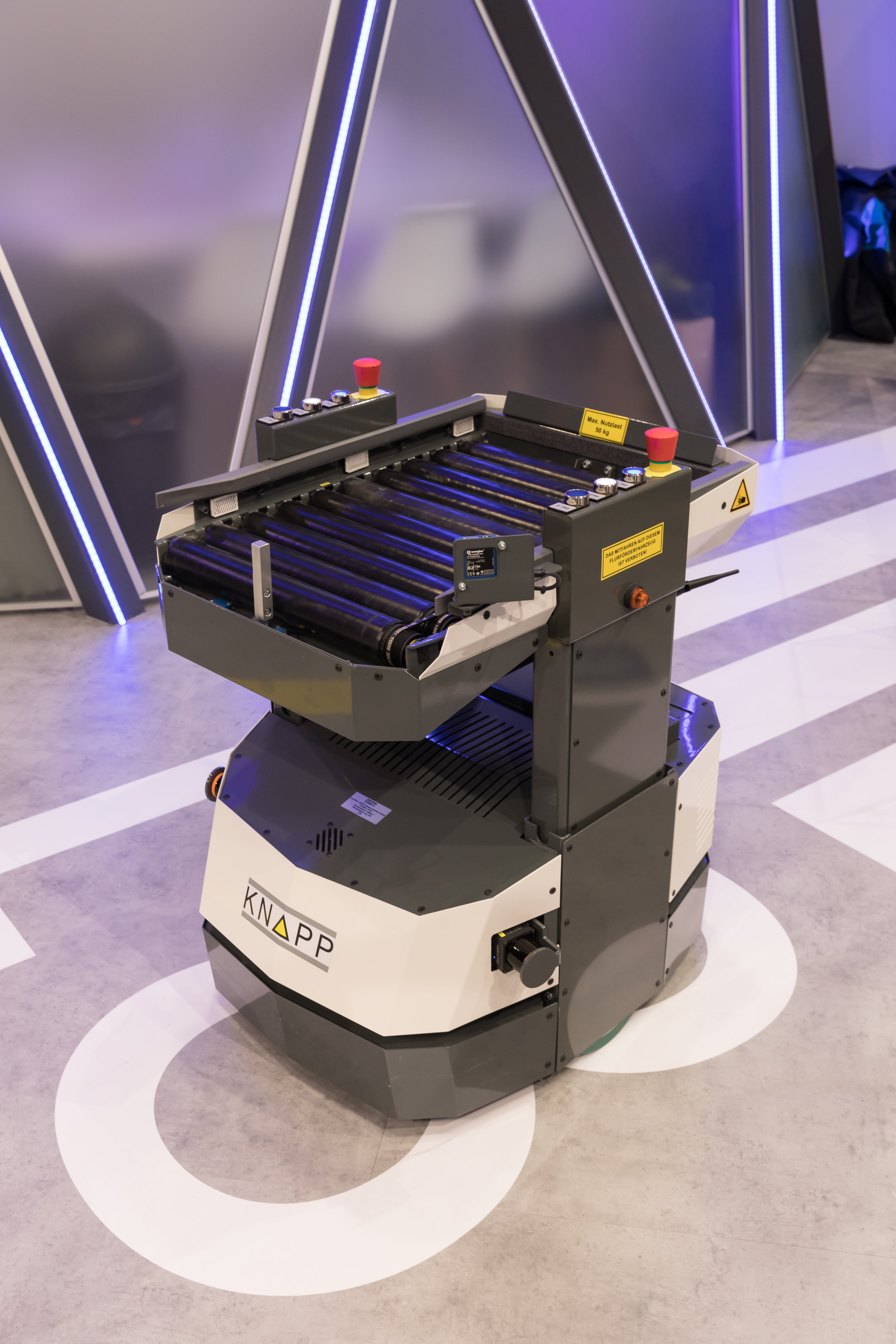 Knapp AGV at ILA 2018, Schonefeld